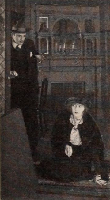 Still from the American drama film serial A Woman in Grey (1920) with Arline Pretty and an unidentified actor, on page 83 of the January 10, 1920 Exhibitors Herald.